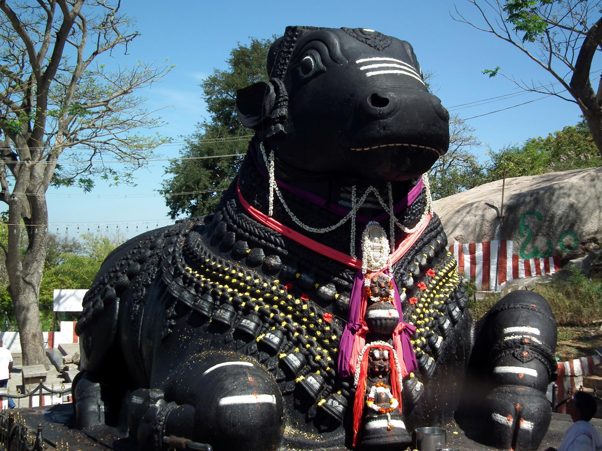 Vehicle of Shiva: The bull Nandi is Shiva's primary vehicle and is the principal gana (follower) of Shiva.